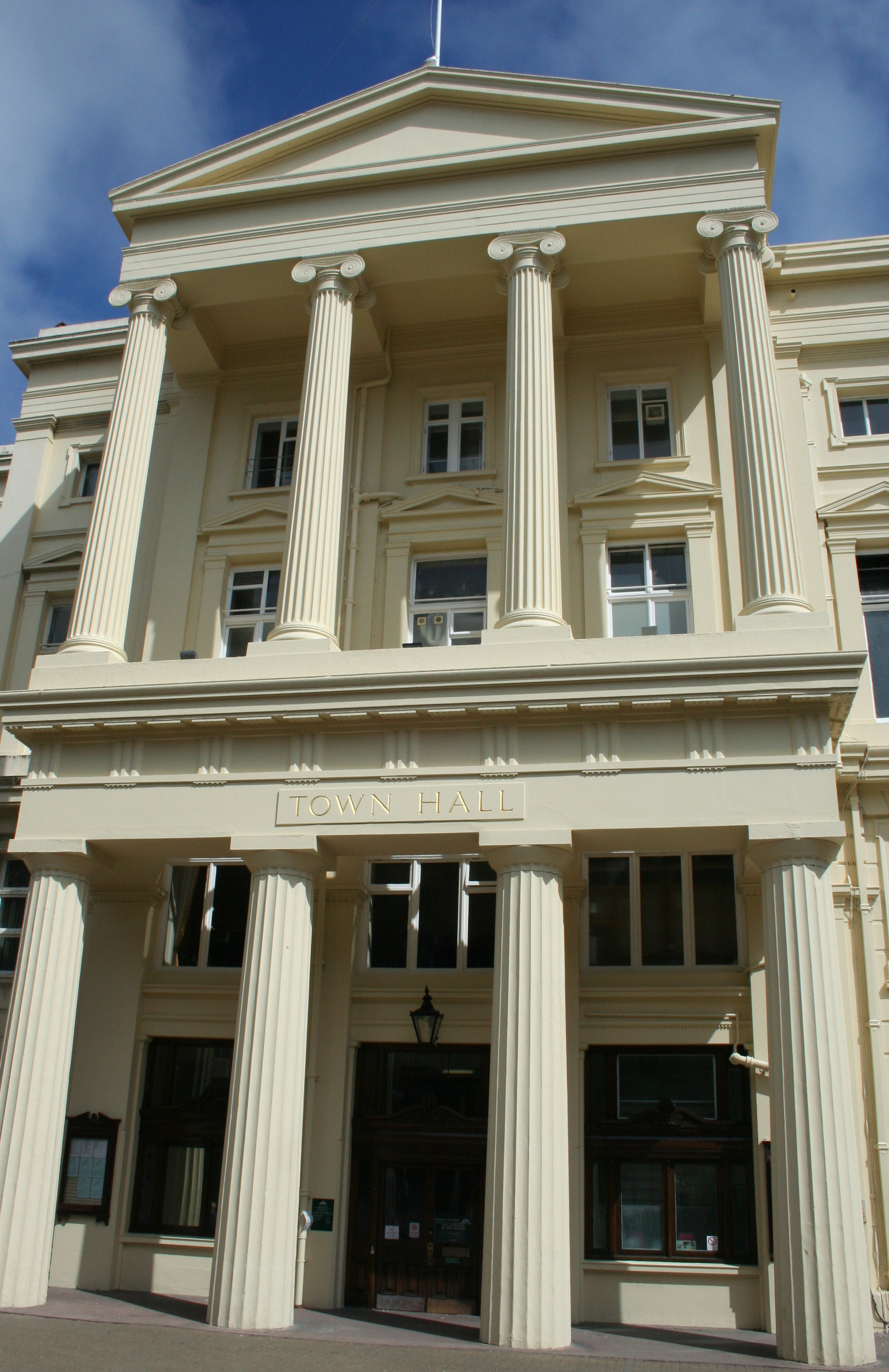 Town Hall, Brighton, England